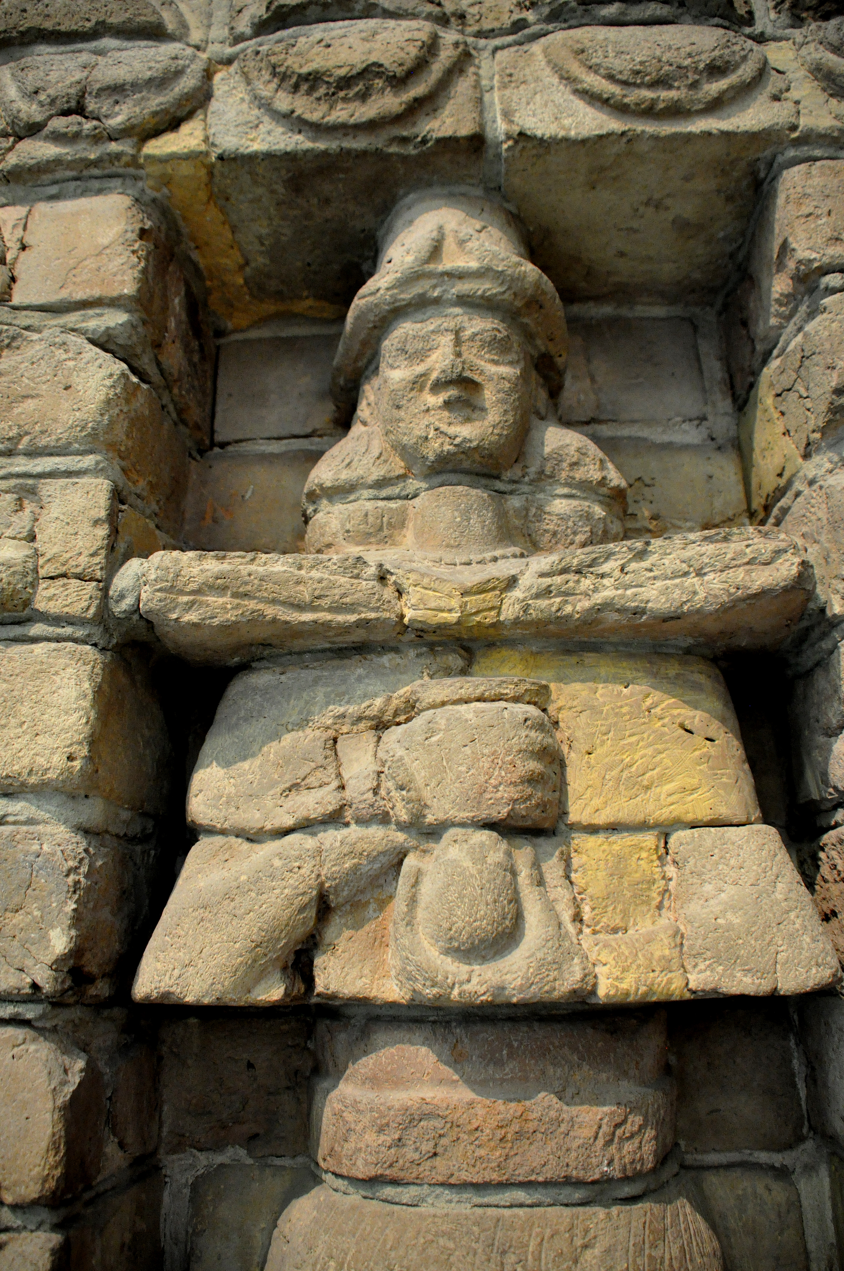 Male deity pouring a life-giving water from a vessel. The deity holds that vessel with his hands. From the facade of Inanna Temple at Uruk, Iraq. The Temple was built by the Kassite ruler Kara-indash. Late 15th century BC. The Pergamon Museum, Berlin, Germany.